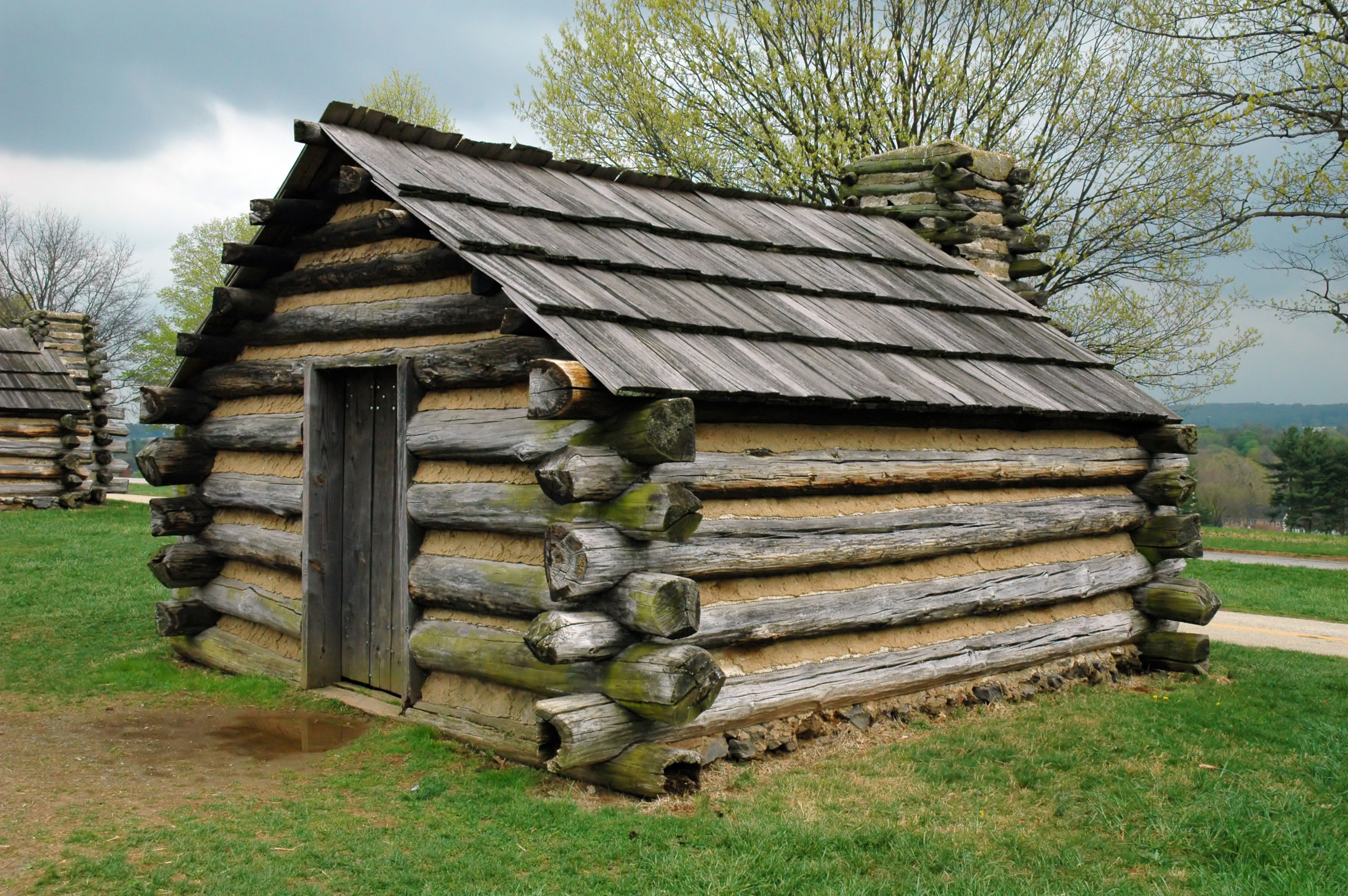 A replica of a cabin at Valley Forge in which soldiers of George Washington's army would have stayed during the winter of 1777-1778.